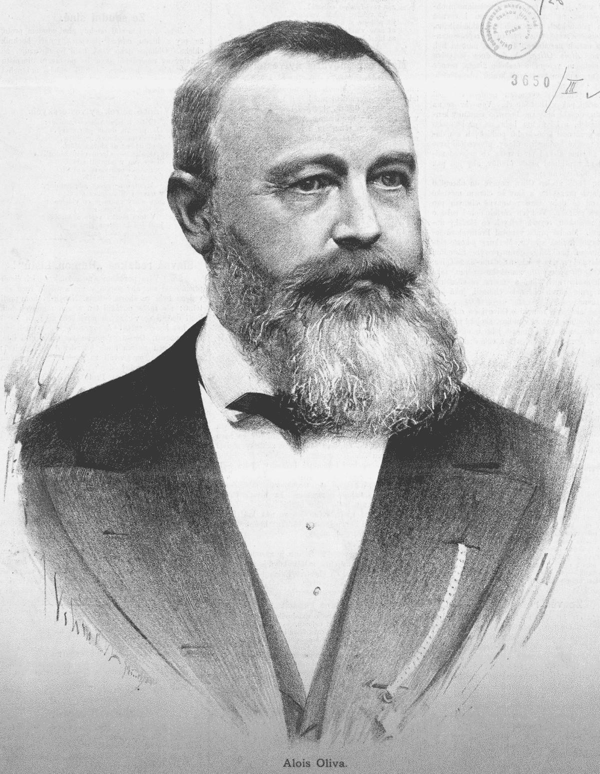 Portrait of Alois Oliva (1822 - 1899), Czech wholesaler and philantropist